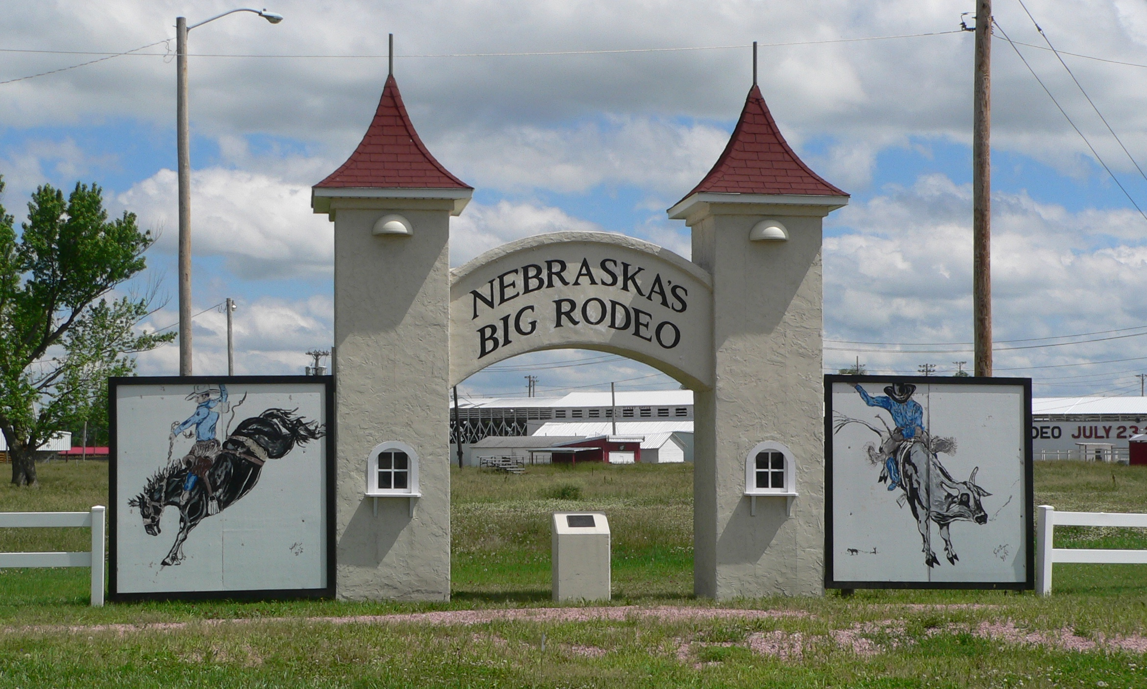 Walk-in gate at northwest corner of Garfield County Frontier Fairgrounds, located at the southeast corner of Nebraska Highway 11 and L Street in Burwell, Nebraska; seen from the northwest. The rodeo grounds are listed in the National Register of Historic Places.